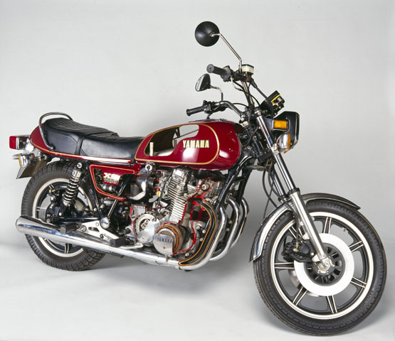 An object from the collections of the Science Museum (London) as copied from their ObjectWiki.